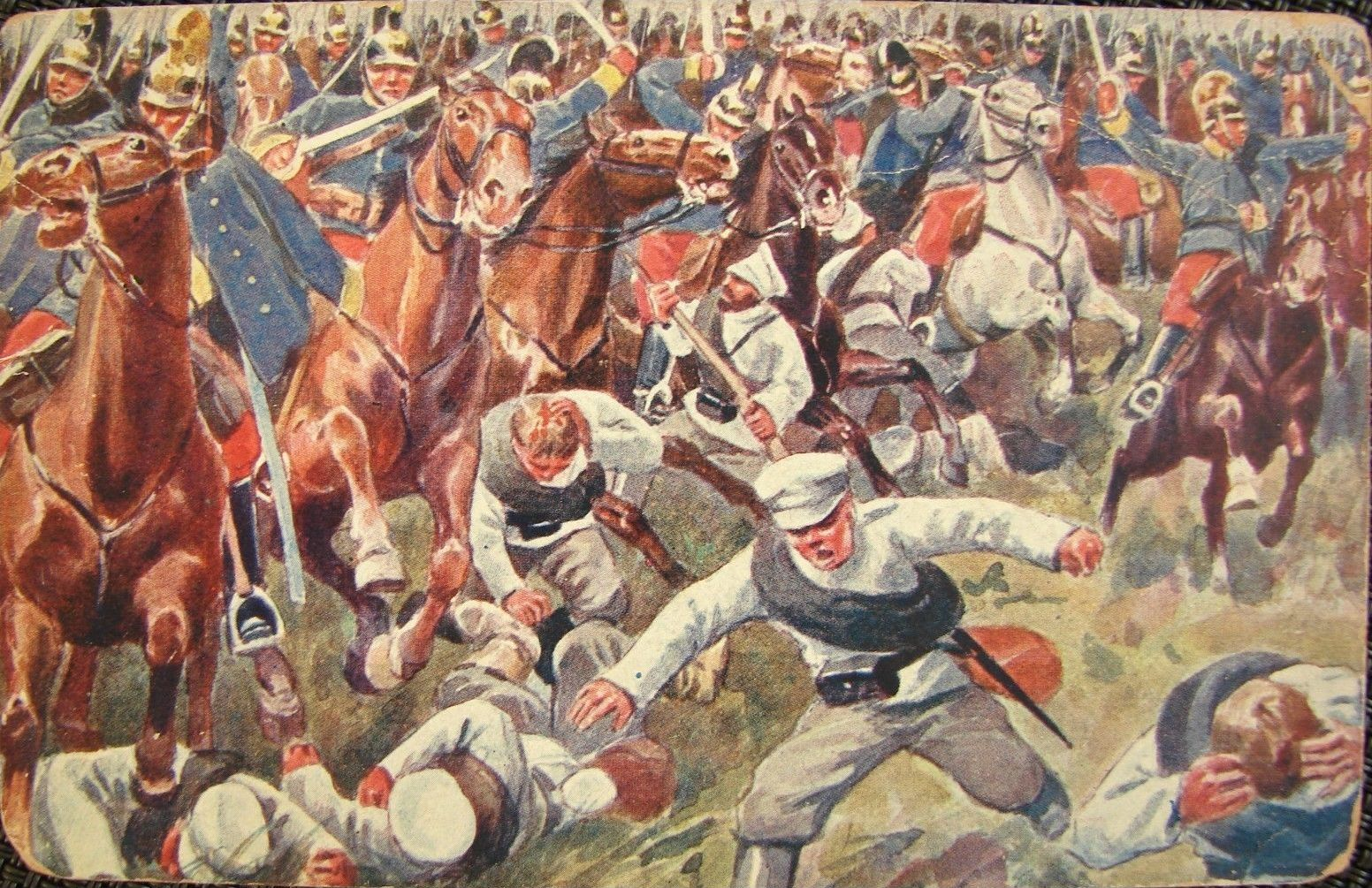 Front side of Open Letter (Carte Postale) issued in c. 1914 with view of attack of Austro-Hungarian dragoons on Russian infantry at Krasnik (august 1914)